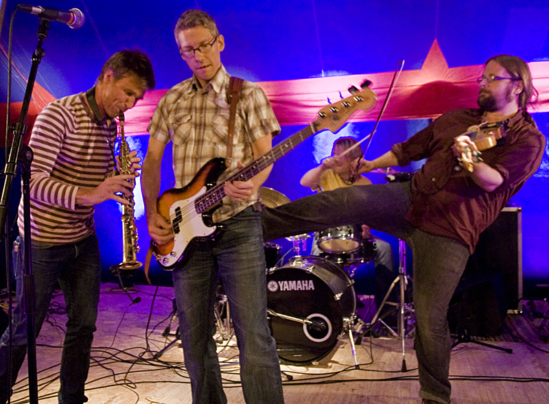 Hoven Droven at Backafestivalen 2008